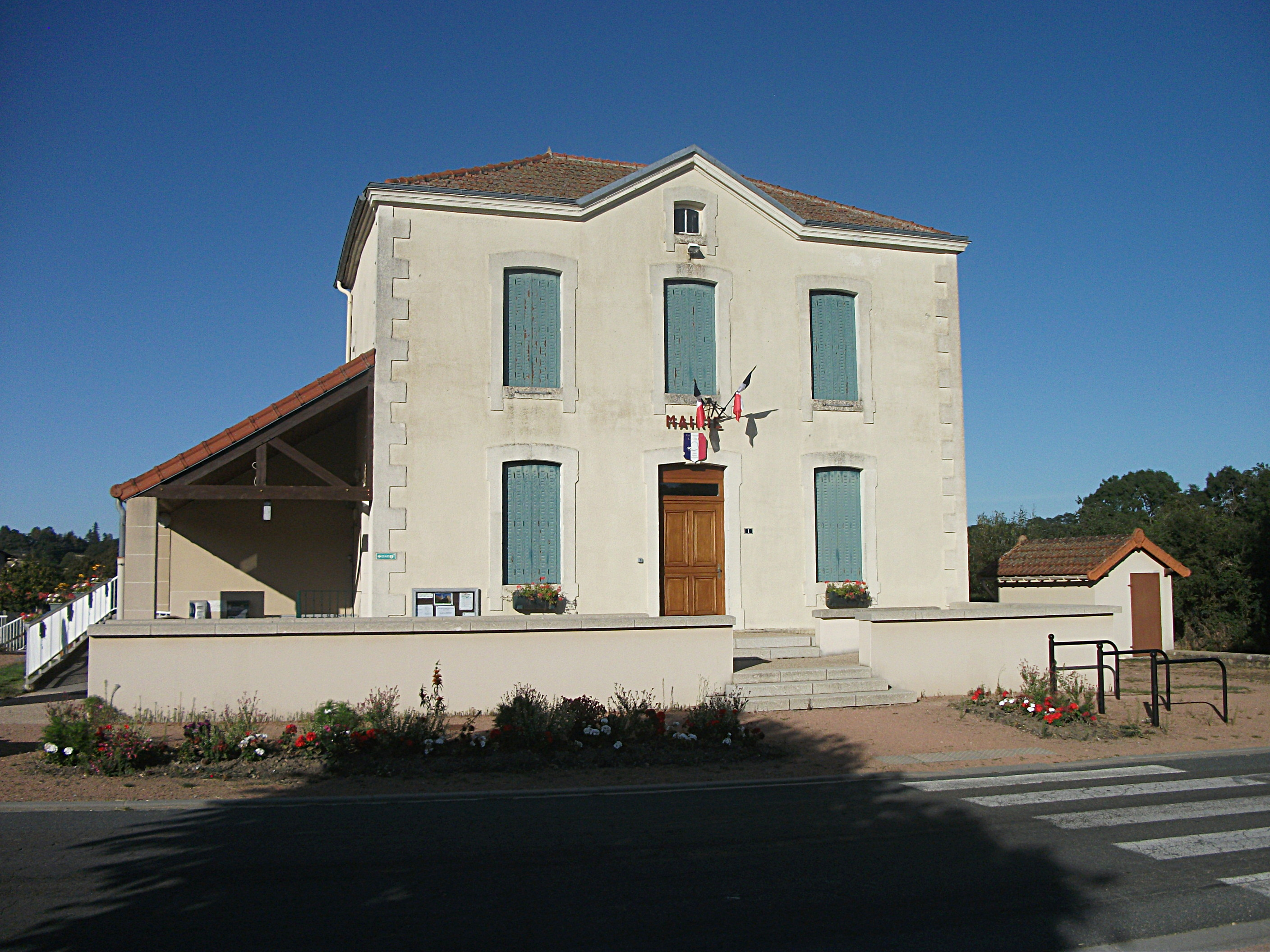 Town hall of La Celle, Allier, Auvergne-Rhône-Alpes, France. [19028]